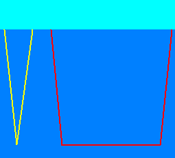 A bounce dive profile in yellow compared to a square profile dive